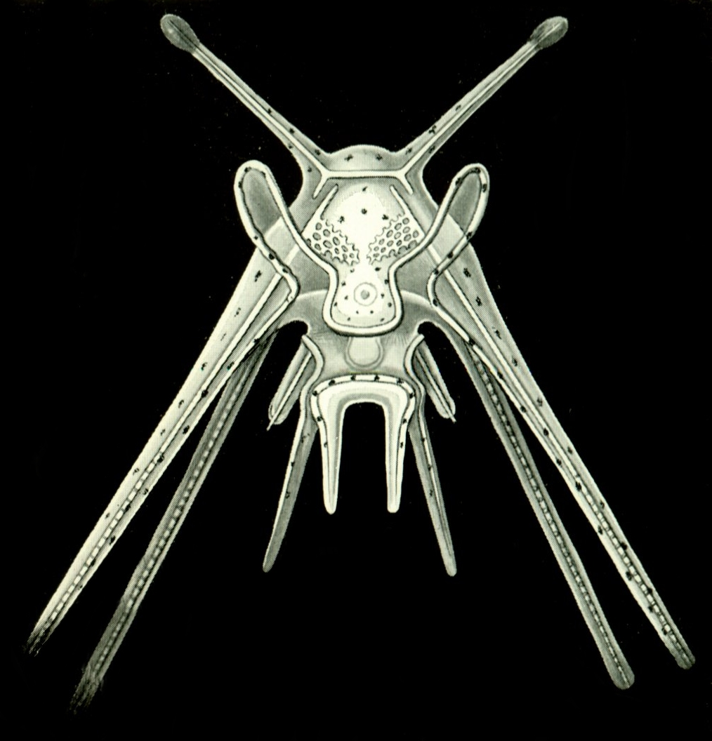 Haeckel Amphoridea-10. See here for index to numbers.